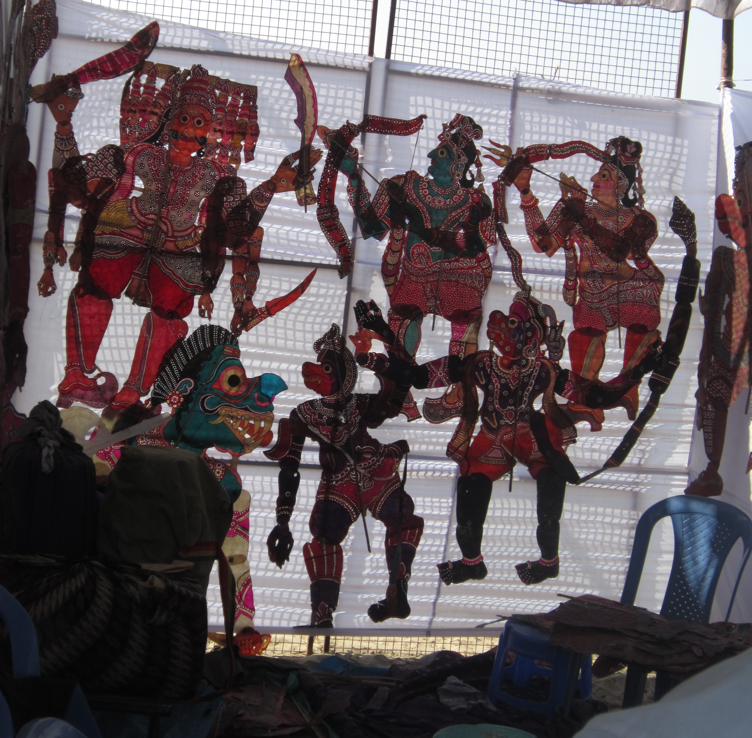 Tolubommalu-Andhra traditional play